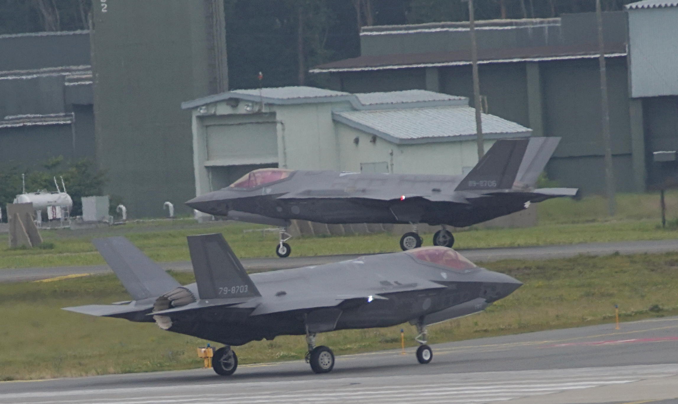 JASDF F-35 at Misawa Airbase 2018